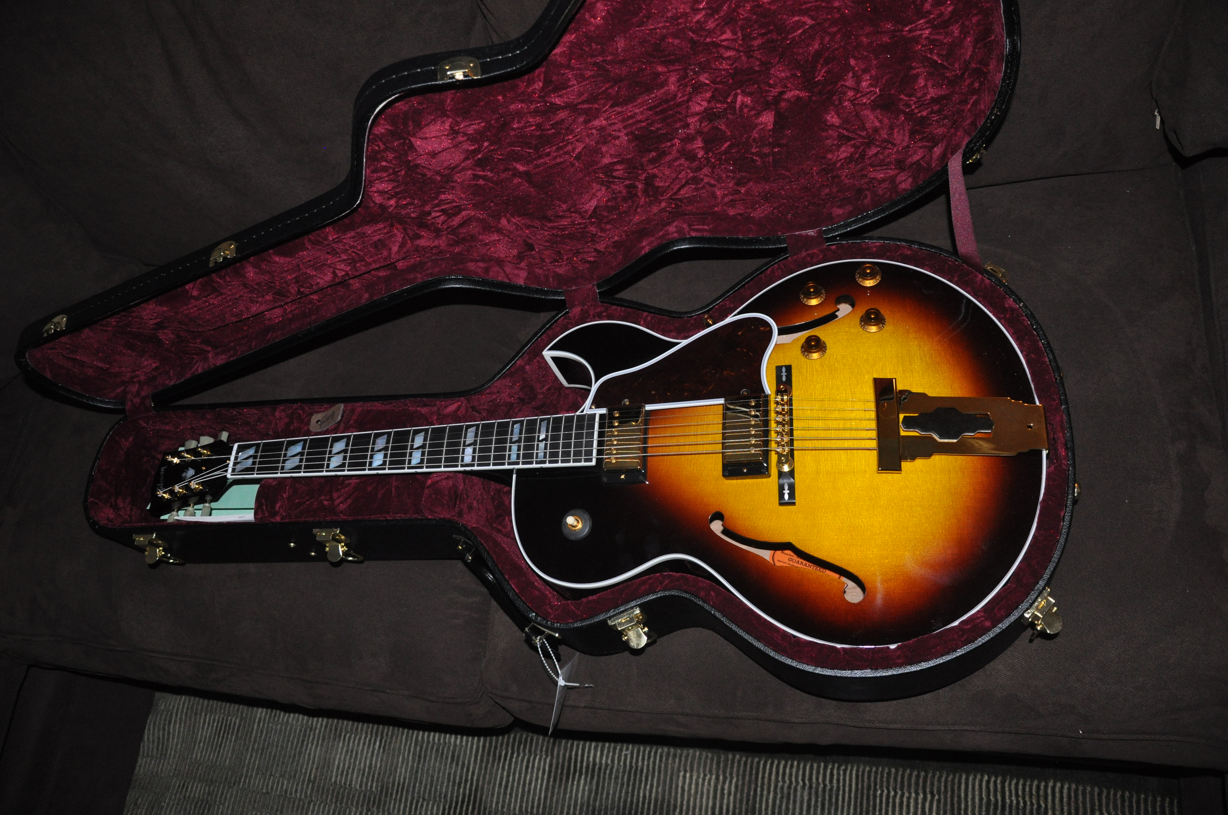 Gibson L-4 CES my new toy. i love her so.